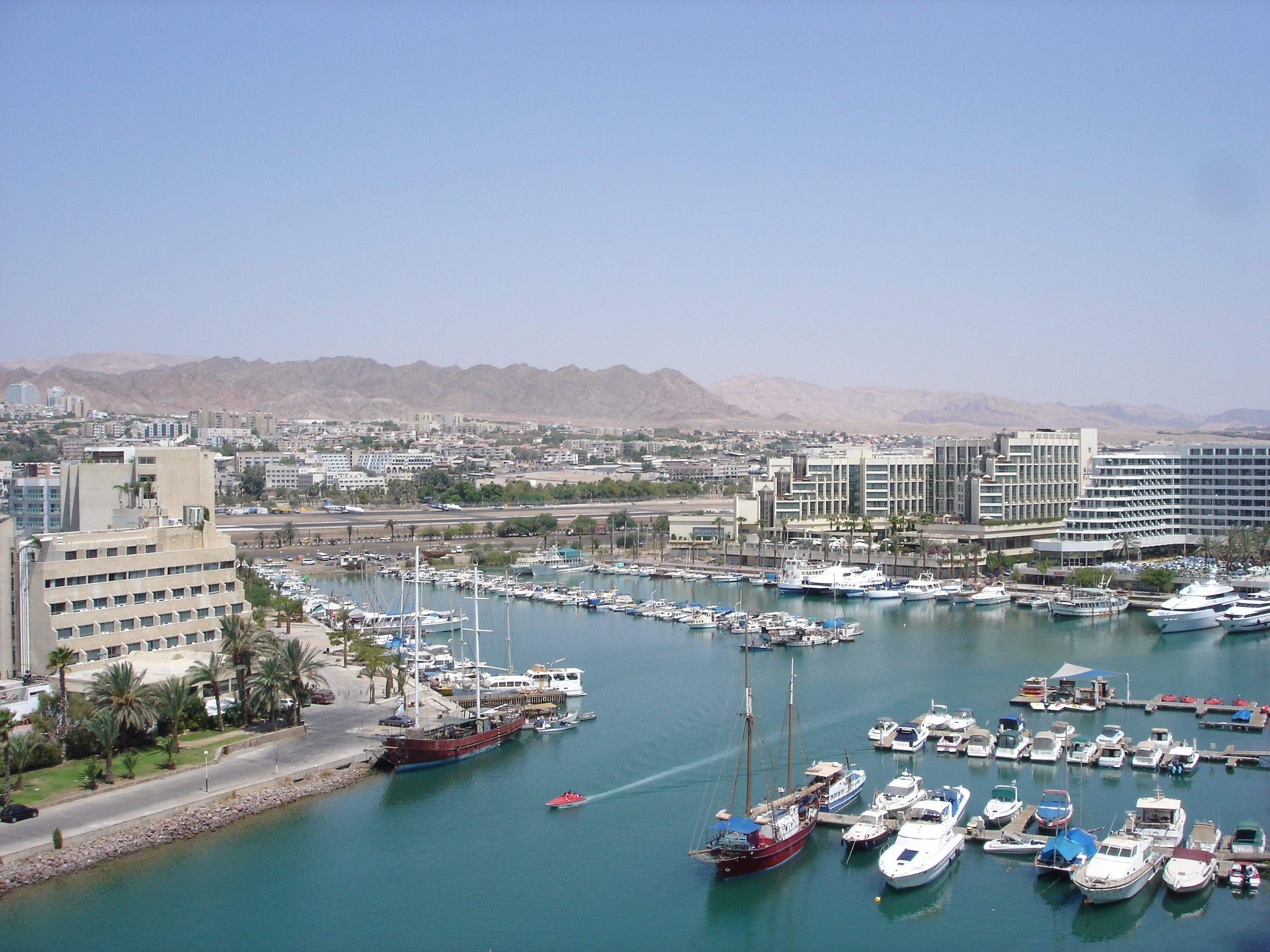 View of Eilat, southern tip of Israel